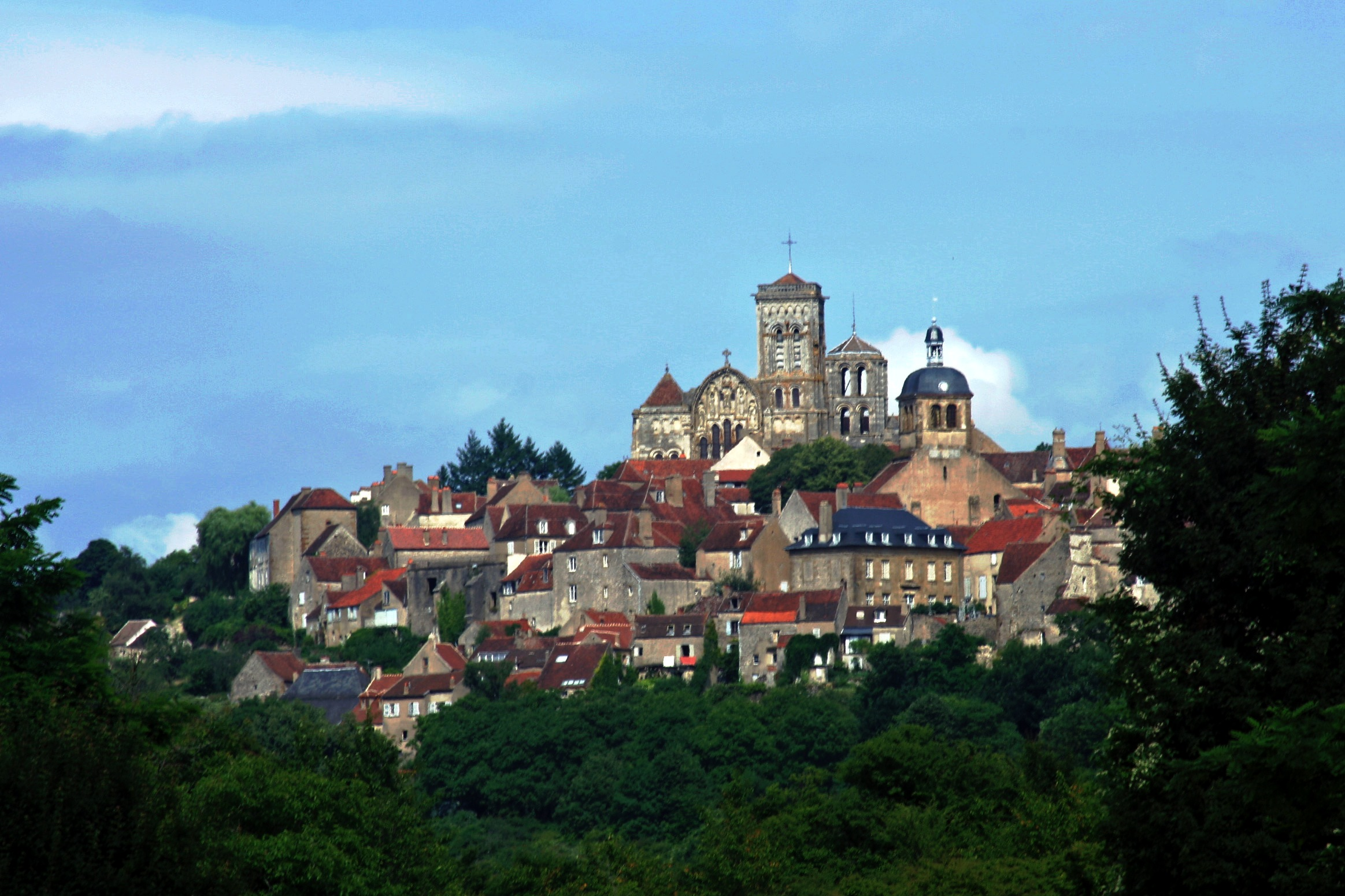 Vezelay from West